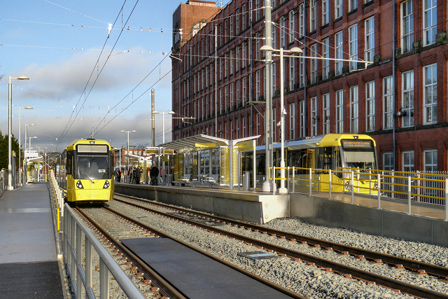 Metrolink Bombadier trams standing at Shaw and Crompton Station on the day that services on the Oldham line were extended from Mumps to Shaw and Crompton. The tram on the right hand side is waiting to set off towards Oldham, Manchester and St Werburgh’s Road. Those on the left are "on test". The station at Shaw and Crompton stop is to the south of Beal Lane. A single faced outbound platform is on the west side of the line. The double sided inbound platform will be on the east side of the line, its western face will be for through trams towards Rochdale and its eastern face for terminating trams which will not cross Beal Lane. The footbridge and former railway station platforms to the north of Beal Lane have been removed, as has the barrier level crossing and its control box; the crossing now has traffic lights instead. The large building to the side of the station is Briar Mill